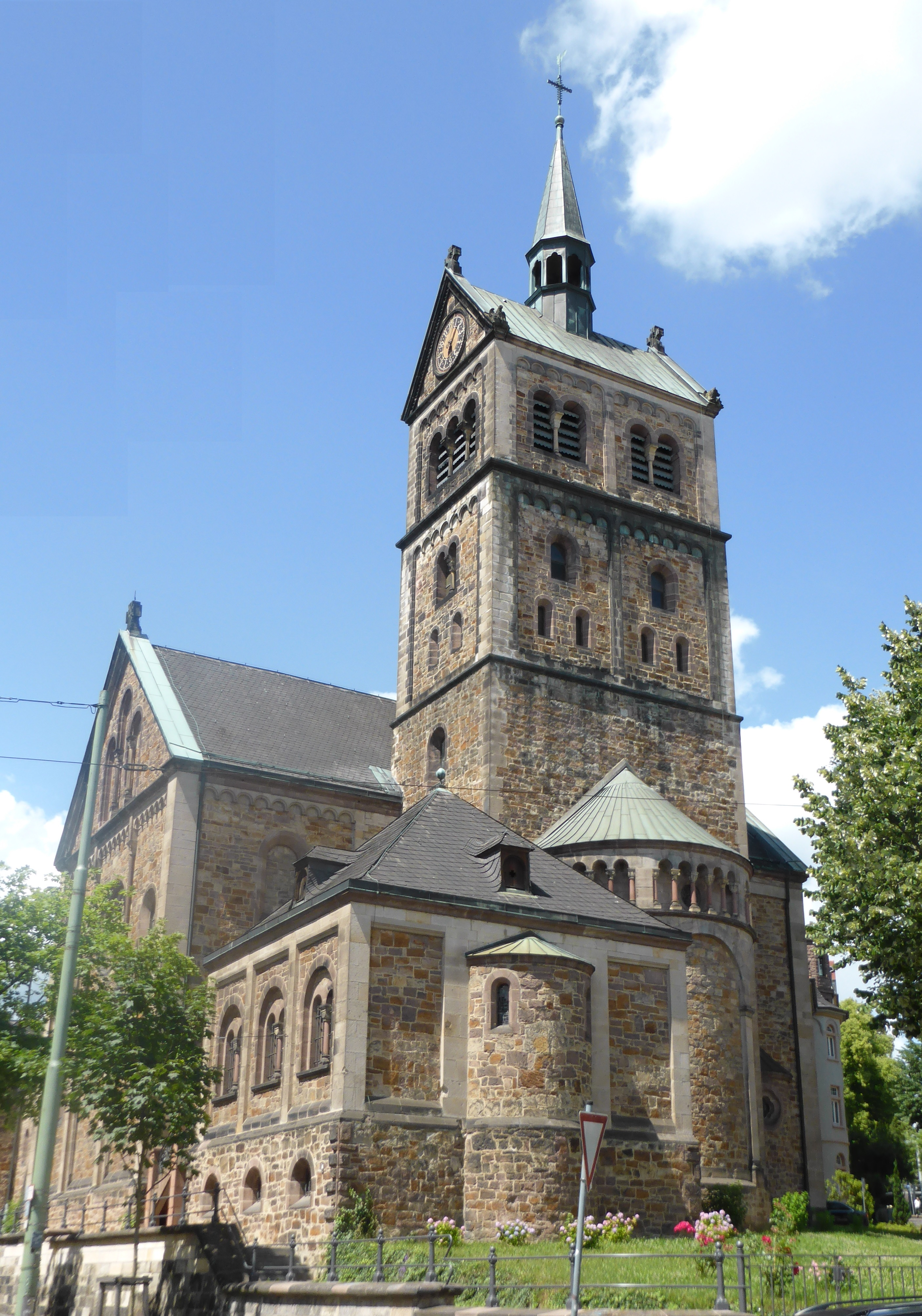 St. Maria Kirche (Rosenkranzkirche) in Kassel, Germany.